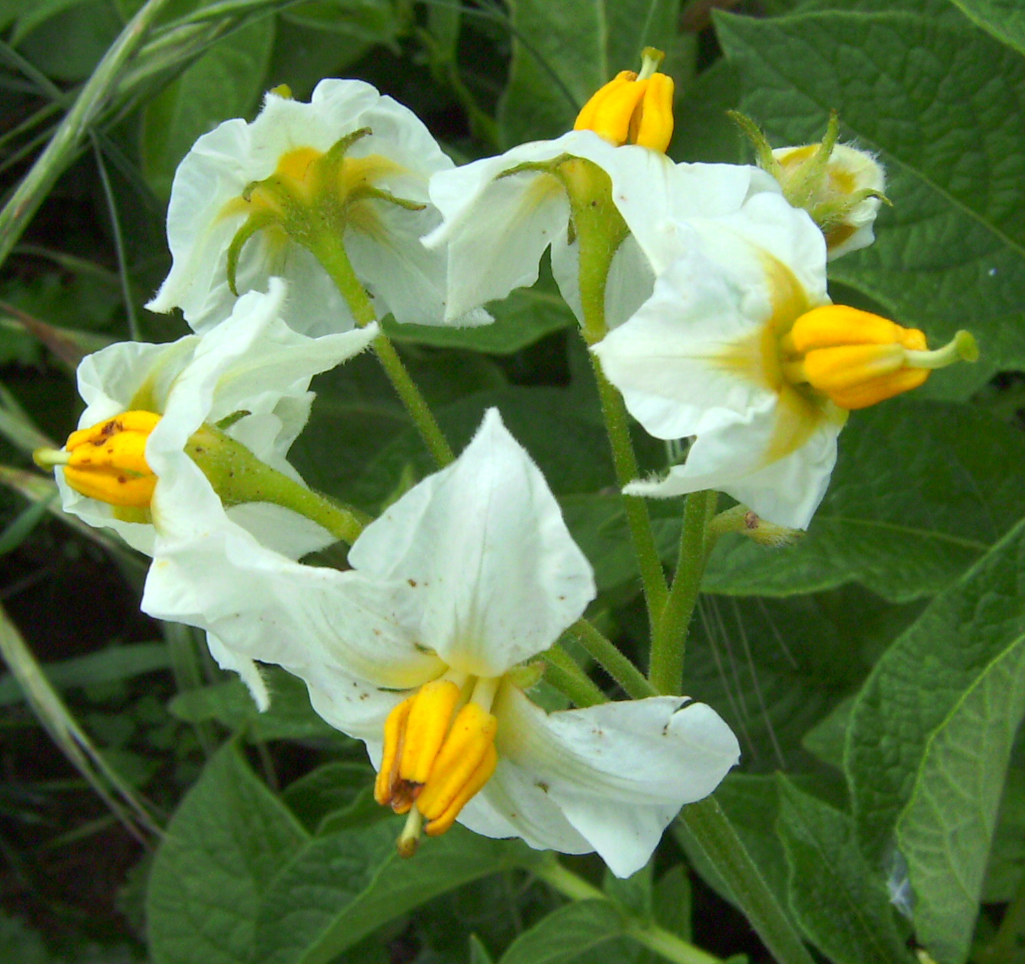 Potato plant (Solanum tuberosum) flowers, Castelltallat, Catalonia